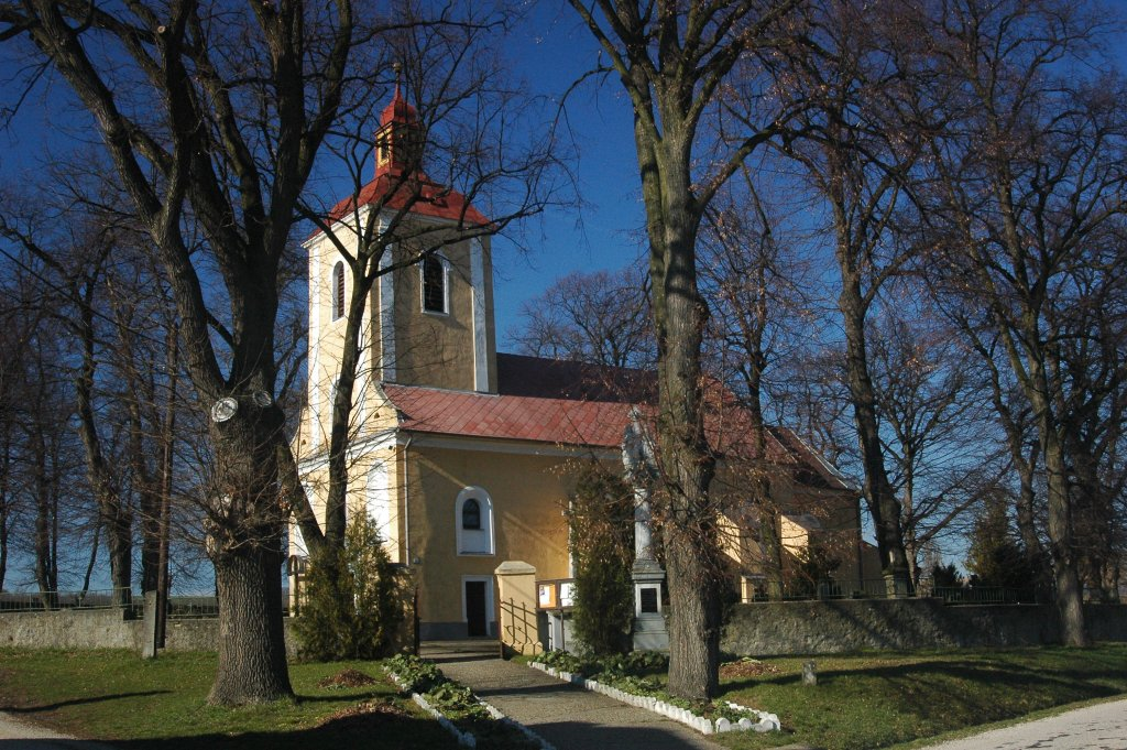 Rohov, Catholic church, 17th st